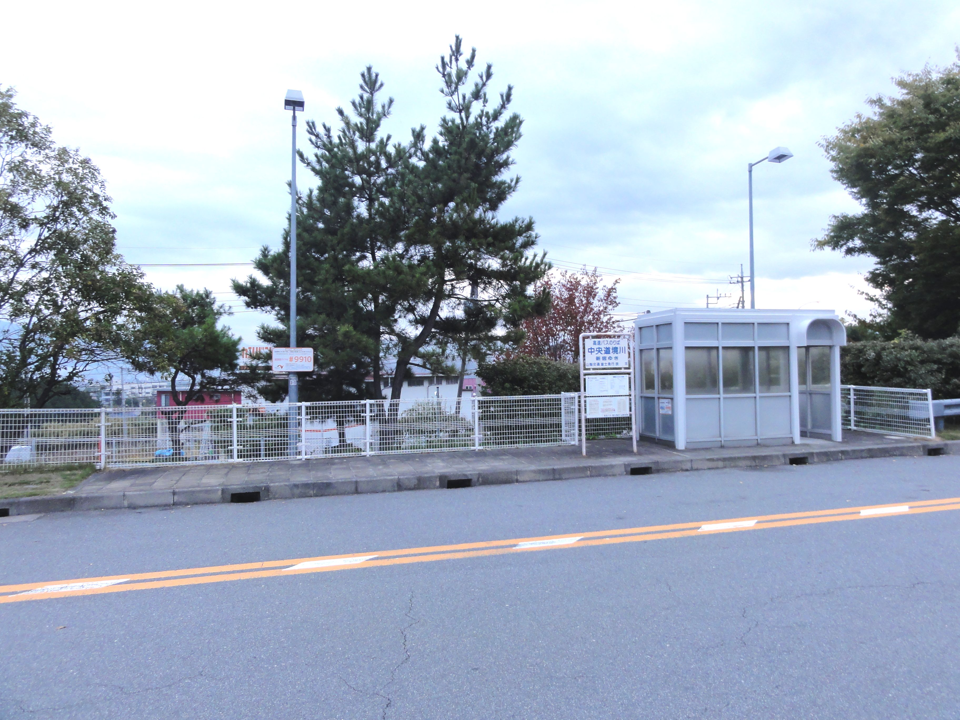 Chuo Expressway Sakaigawa Bus Stop for Tokyo